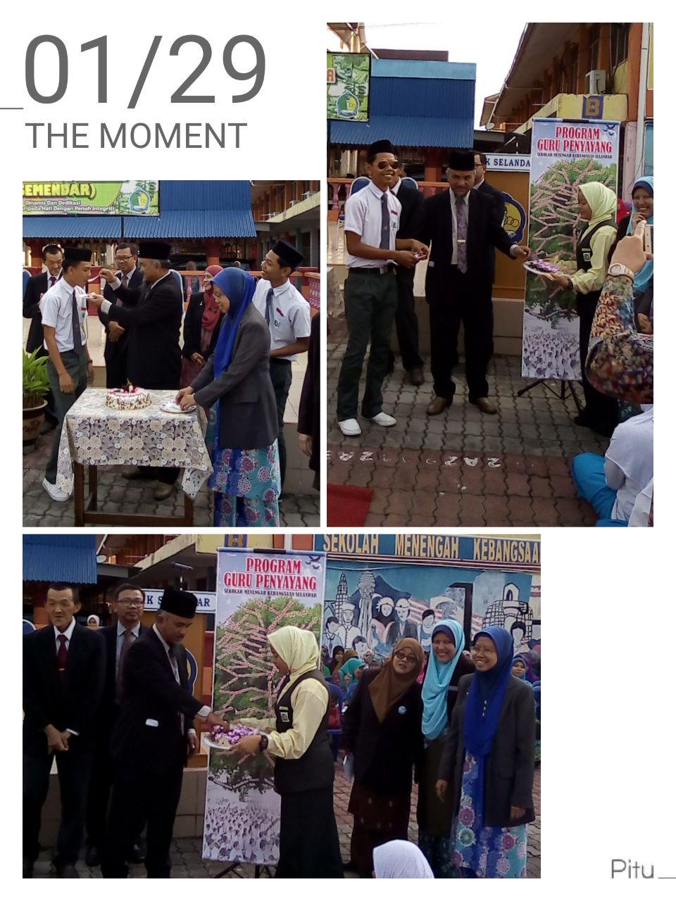 PENYANG 2